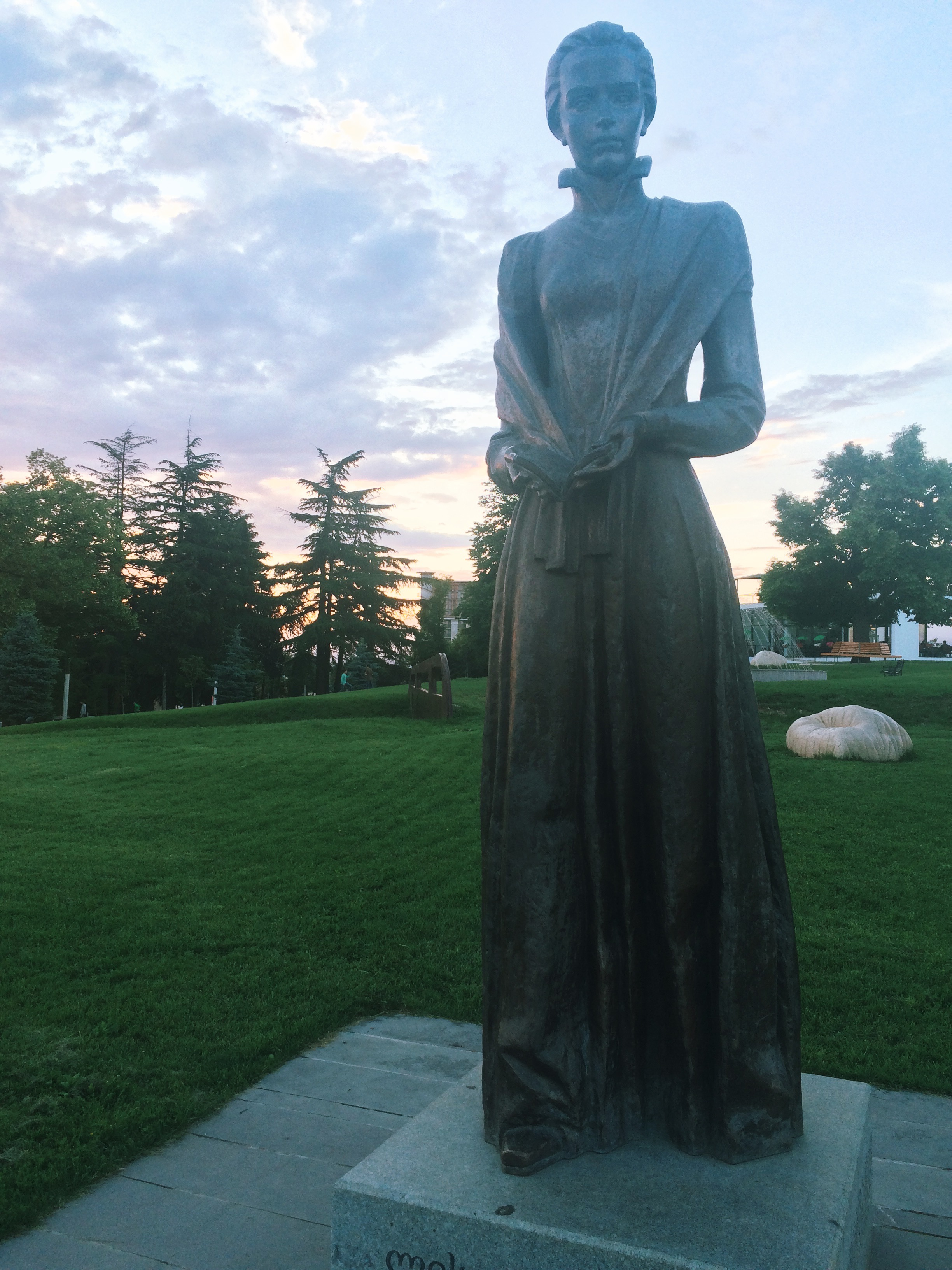 Processed with VSCO with k3 preset